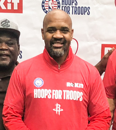 181109-N-BY281-1717 HOUSTON (Nov. 9, 2018) Retired Rockets players, staff, dancers, mascot "Clutch" join Sailors from Navy Recruiting District (NRD) Houston in a photo before teaming up for the 2018 Hoops for Troops community service event. The team helped restore two homes owned by military veterans that were damaged during Hurricane Harvey, August 2017. Hoops for Troops is a year-round initiative led by the NBA to honor active and retired service members and their families. (U.S. Navy photo by Mass Communication Specialist 3rd Class Michael DiGabriele/RELEASED).